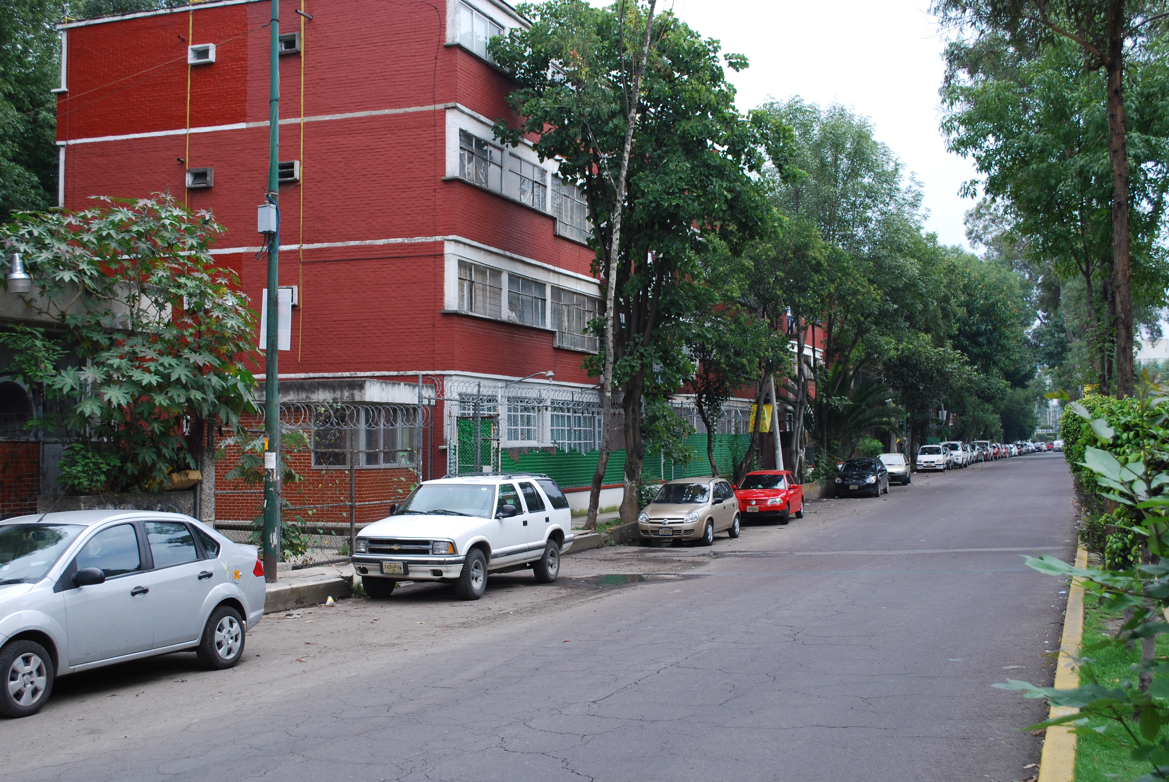 One of the apartment buildings of the Centro Urbano Benito Juarez in Mexico City